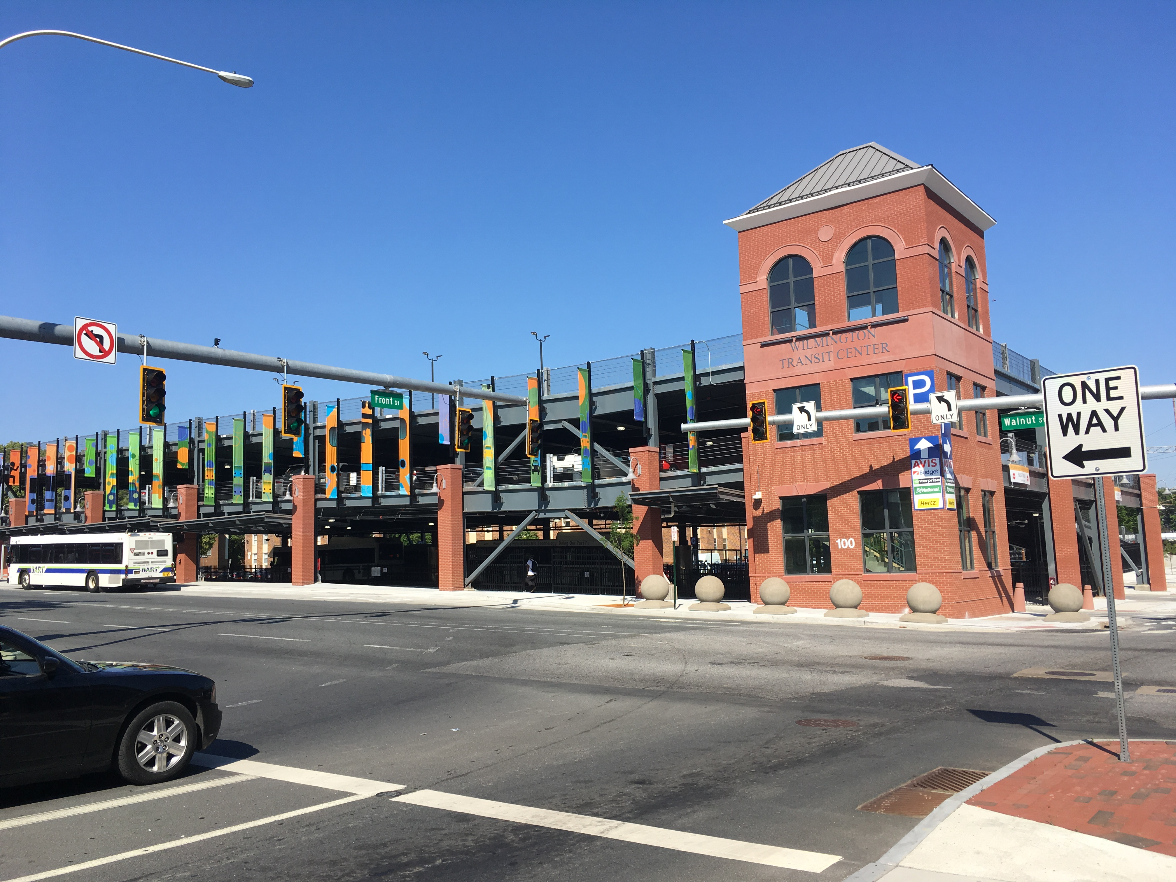 The Wilmington Transit Center serving DART First State buses, located adjacent to the Wilmington Station serving Amtrak and SEPTA trains in Wilmington, Delaware.